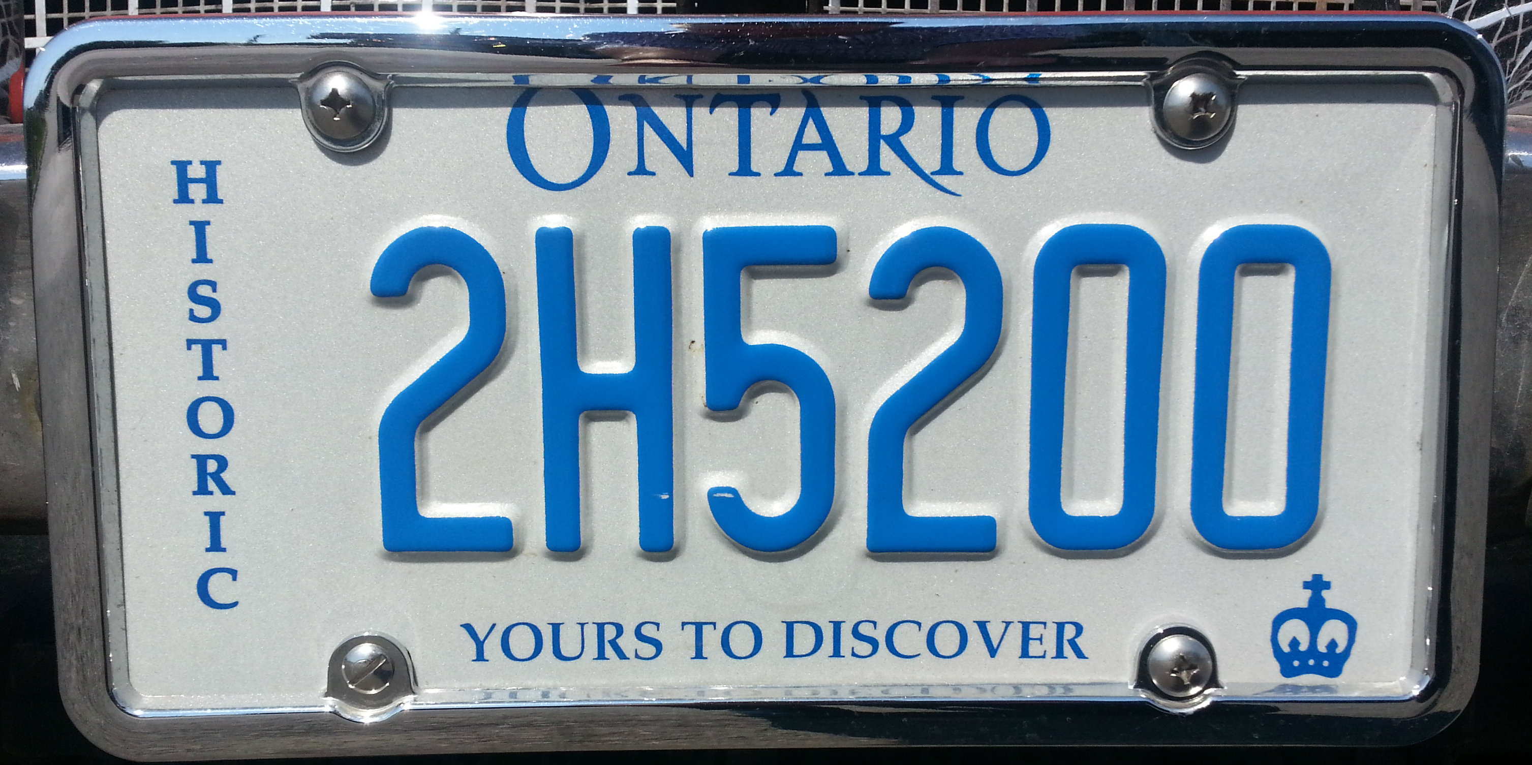 Ontario Historic front plate 2H5200 affixed to a 1958 Pontiac Chieftain wagon originally used by Canadian National Railways to inspect rail lines. Vehicles 30 years or older and substantially unchanged since manufacture may be eligible for historic plates such as these.